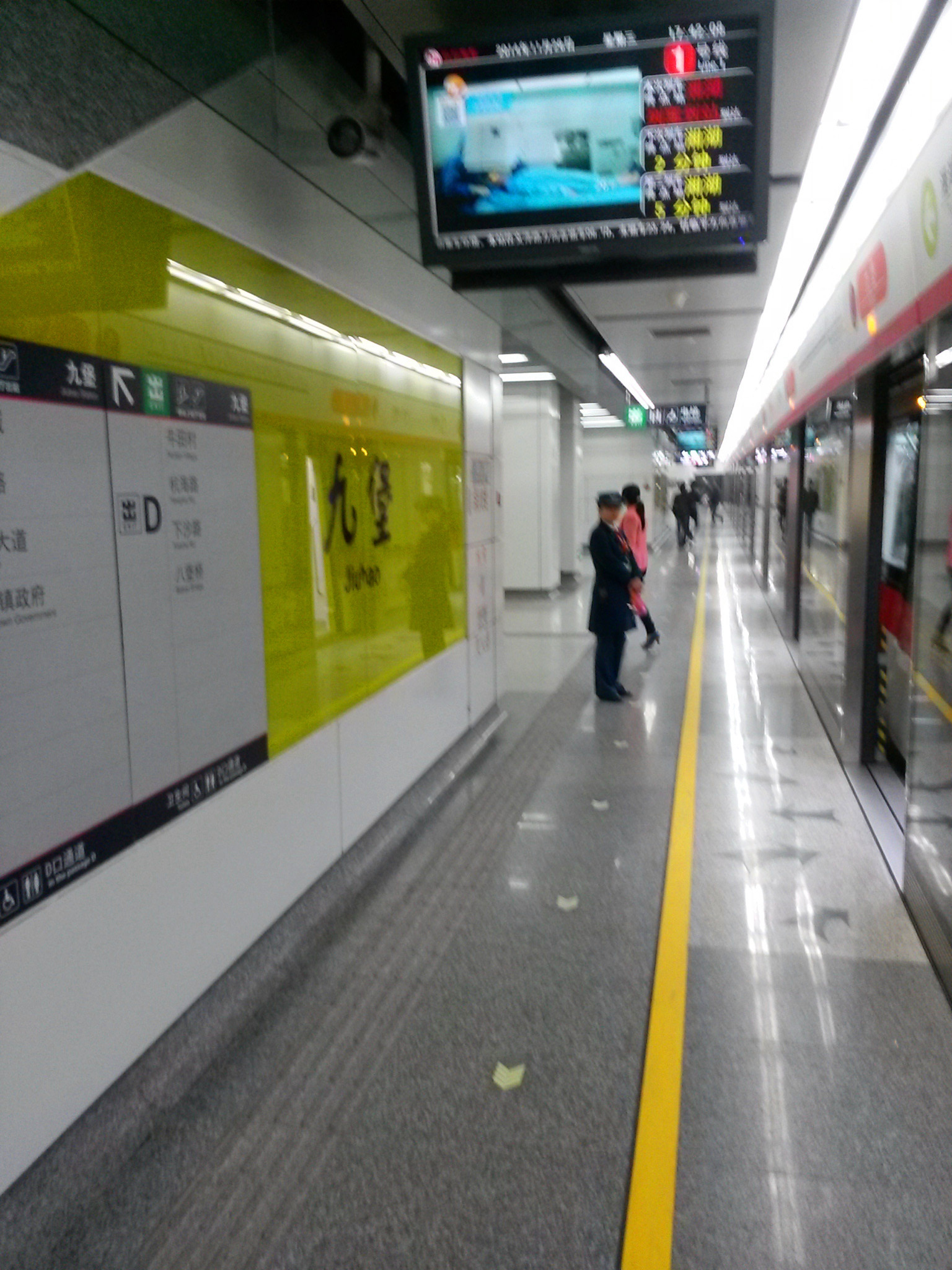 Jiubao Station